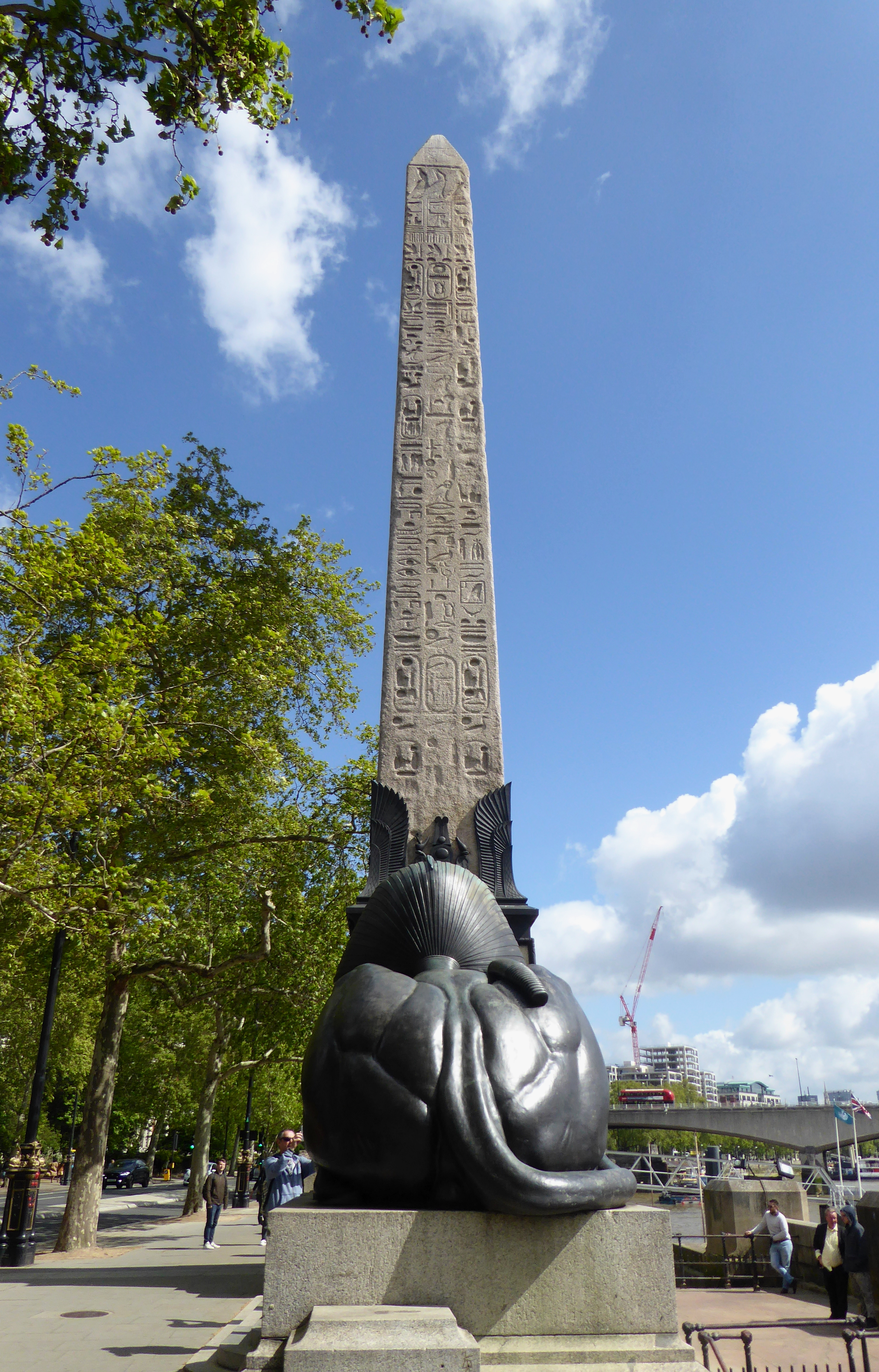 The western side of Cleopatra's Needle in the City of Westminster, London.